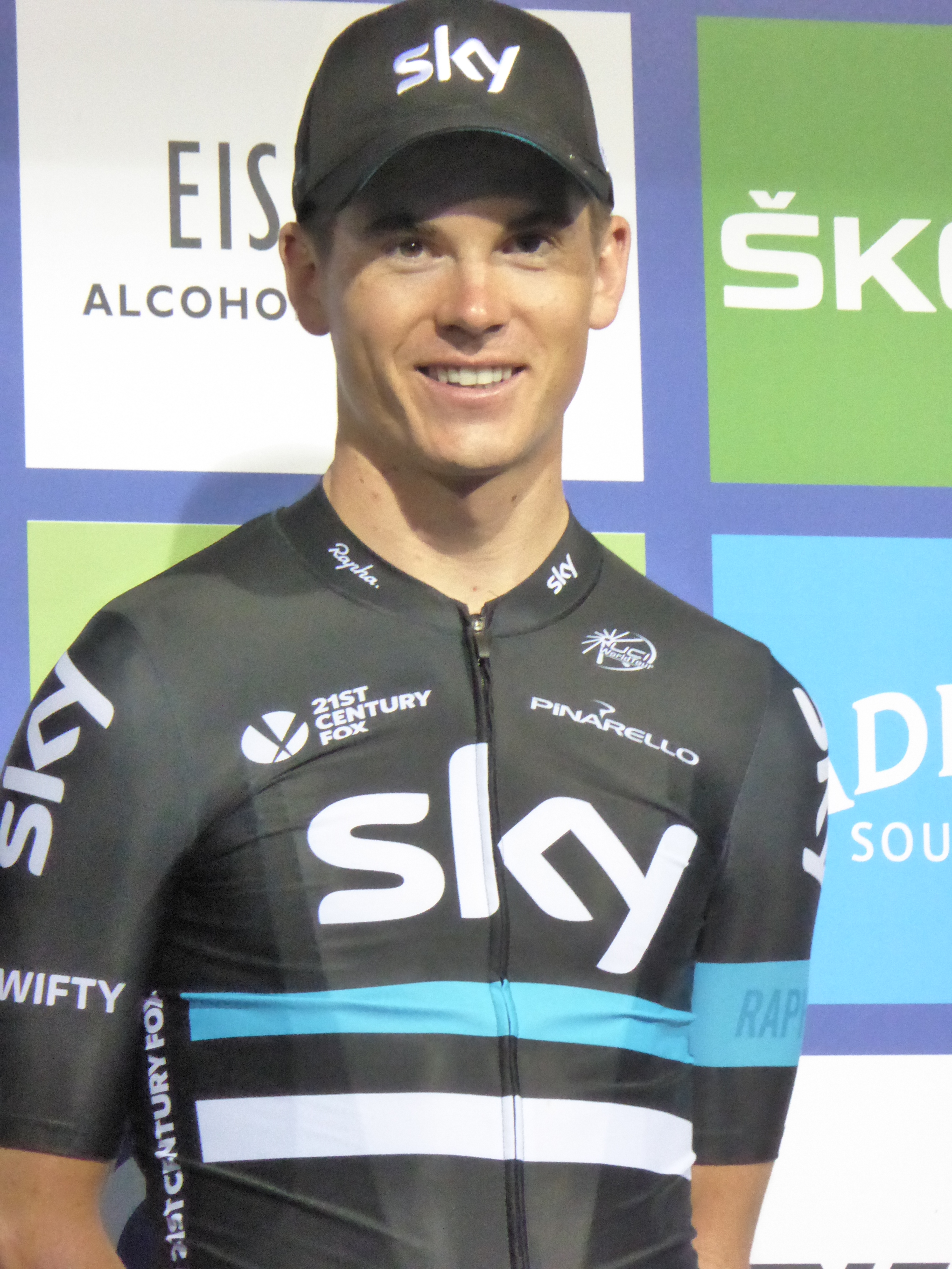 Ben Swift (Team Sky), pictured at the 2016 Tour of Britain team presentation in Glasgow on 3 September 2016.